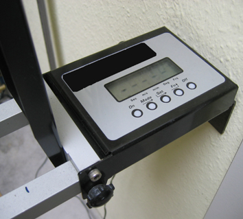 MOI-Frequency